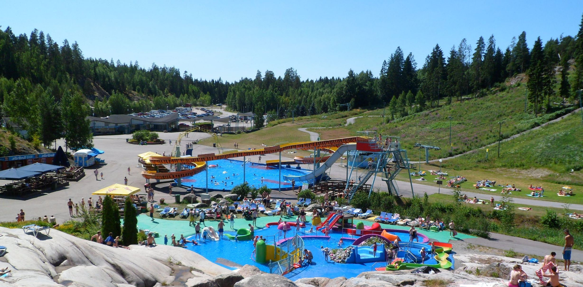 Yleiskuva vesipuisto Serenan ulkoalueista